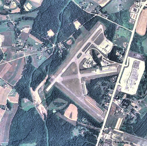 USGS digital orthophoto of Joseph A. Hardy Connellsville Airport in Pennsylvania